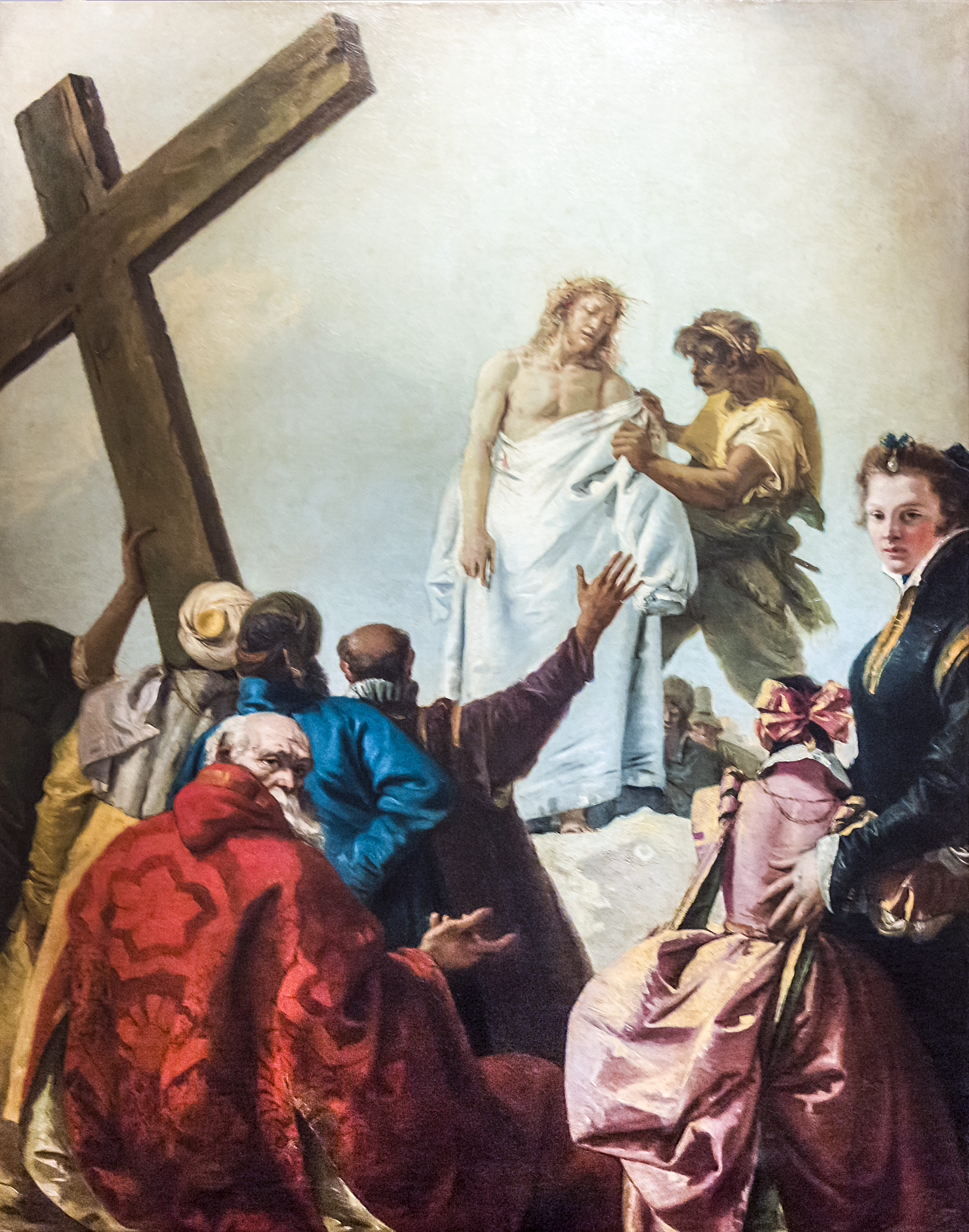 San Polo (church) - Oratory of the Crucifix - VIA CRUCIS X - Jesus is stripped of his garments by Giandomenico Tiepolo. Oil on canvas (1745 -1749).